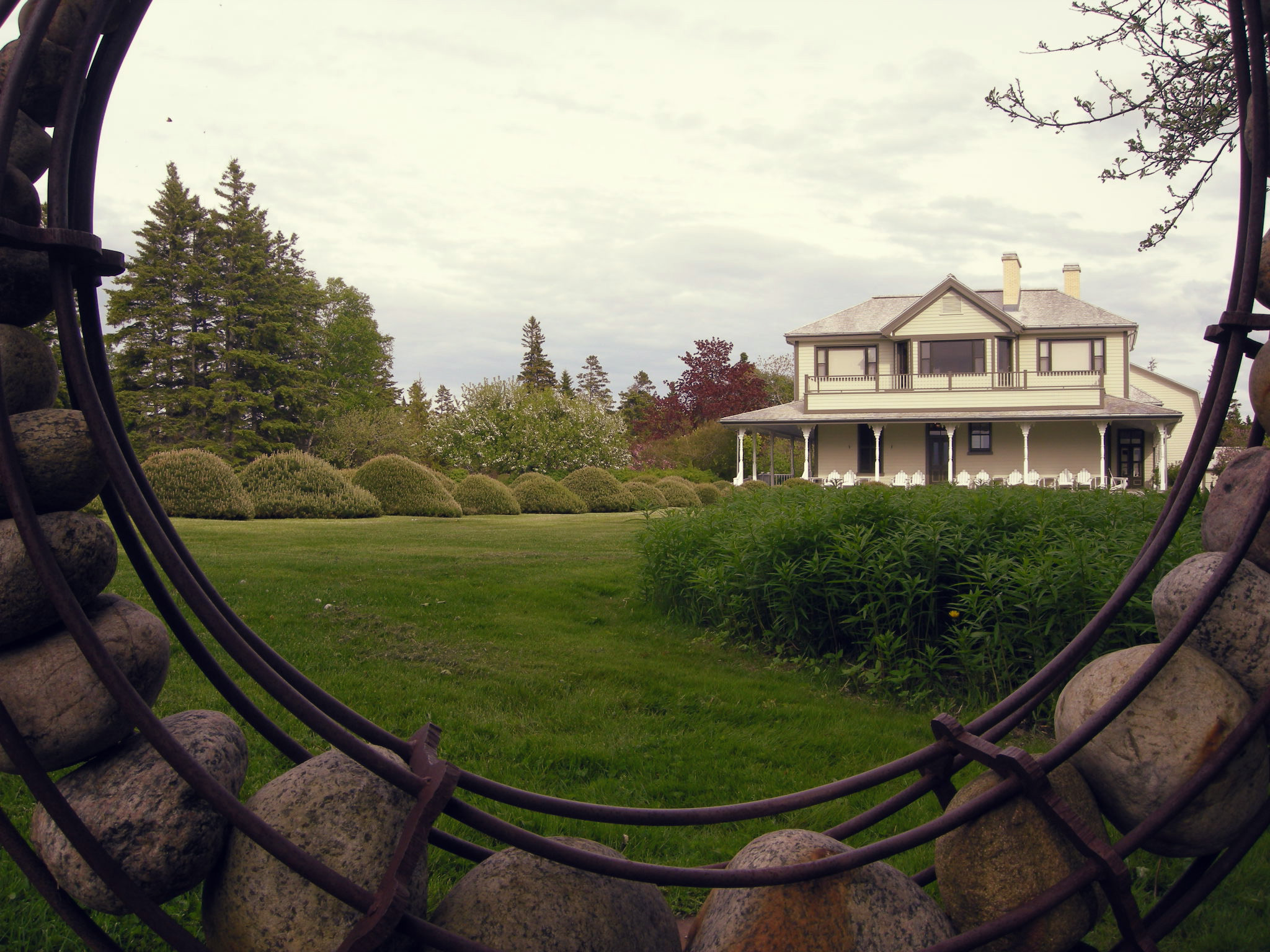 Estevan Lodge: A Historic House at the heart of the Reford Gardens